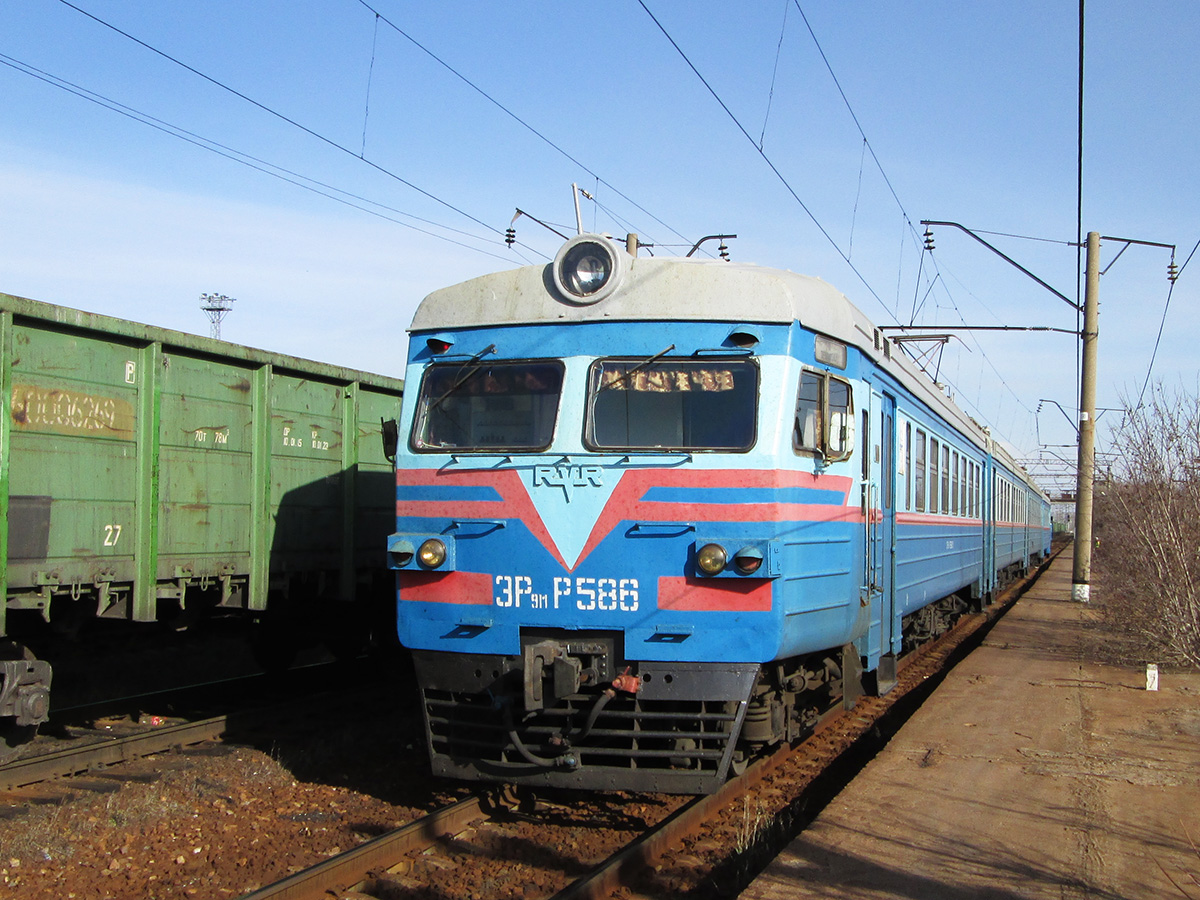 ER9MR-586 EMU-train at Karagandy-Suryptau station (Kazakhstan)